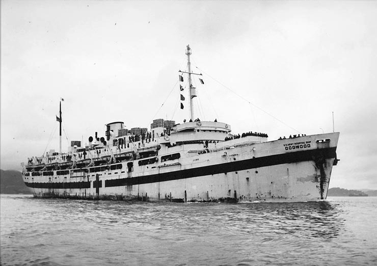 USAHS Dogwood In San Francisco Bay, California, in late 1945 or early 1946. Donation of Boatswain's Mate First Class Robert G. Tippins, USN (Retired), 2003.